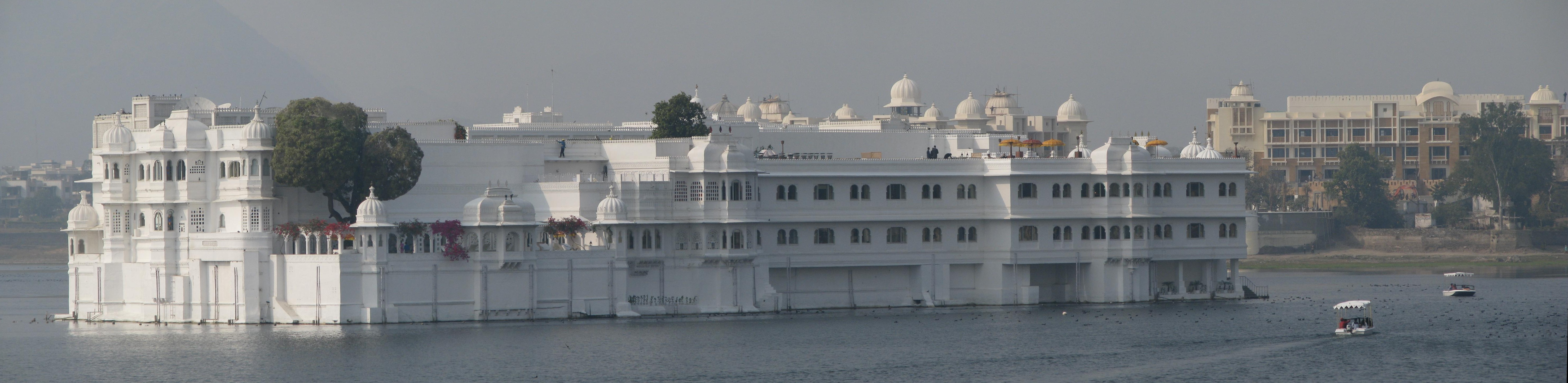 Panoramic image of Lake Palace Hotel, Lake Pichola, Udaipur, India